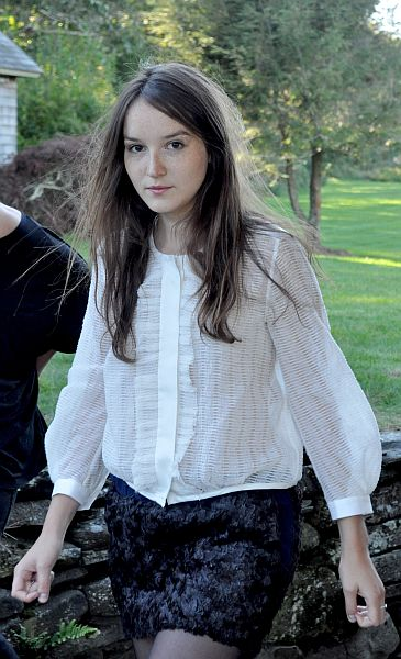 Actress Anais Demoustier attends 18th Annual Hamptons International Film Festival Chairman's Reception on October 9, 2010 at the home of Stuart Suna in East Hampton, New York. (Photo © Nick Stepowyj)